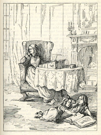 Illustration to Chapter 10 of Vanity Fair by William Makepeace Thackeray